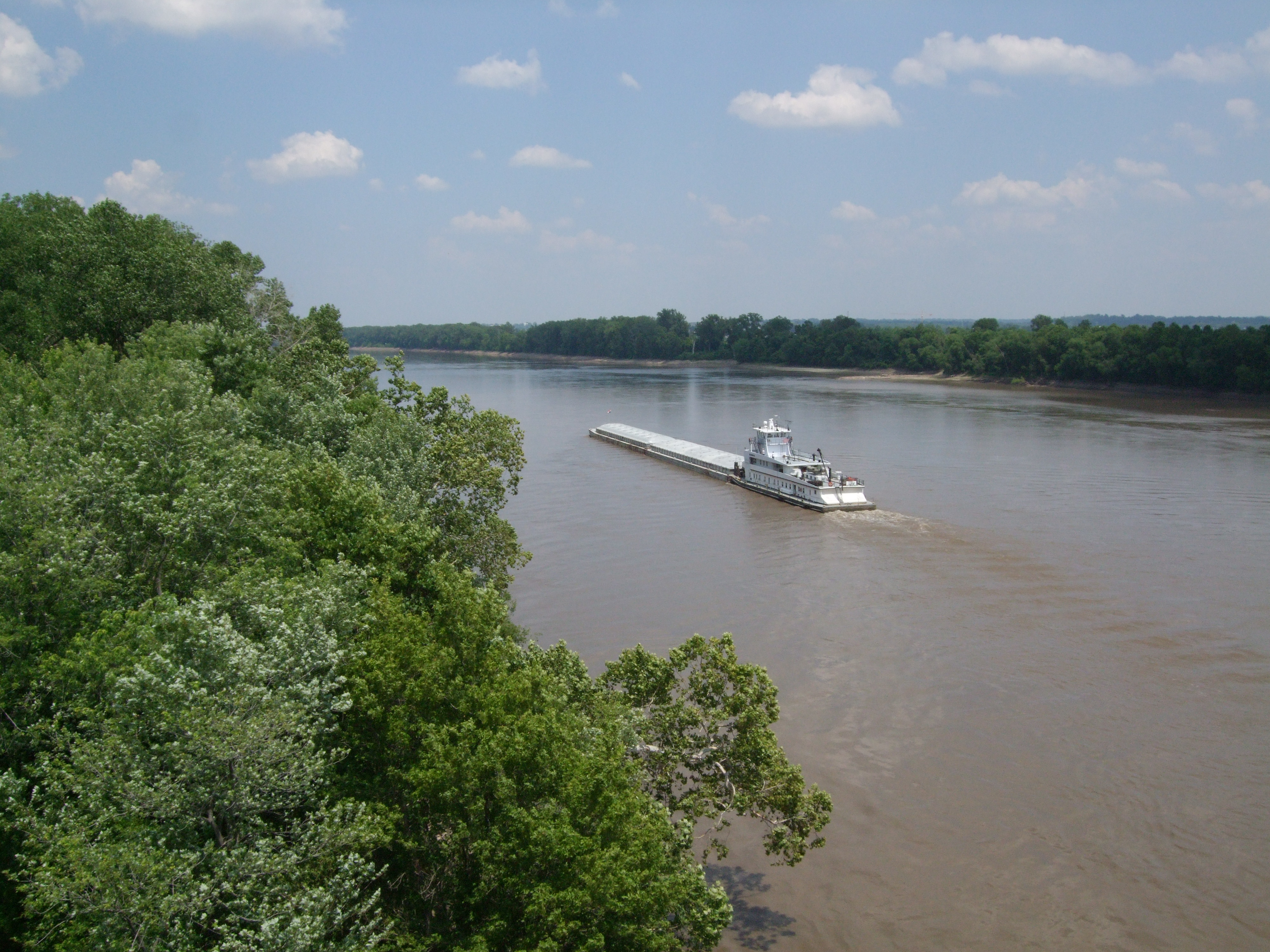 Picture of the Missouri River at Highway 364 from the Highway 364 bridge. This is a northbound view from the Saint Charles side and a barge is visible.